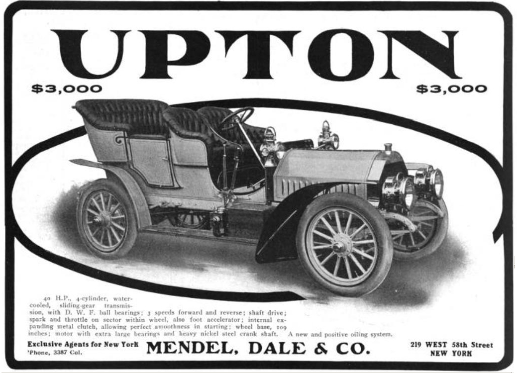 The Upton Motor Car Co. - Lebanon, Pennsylvania - 1906